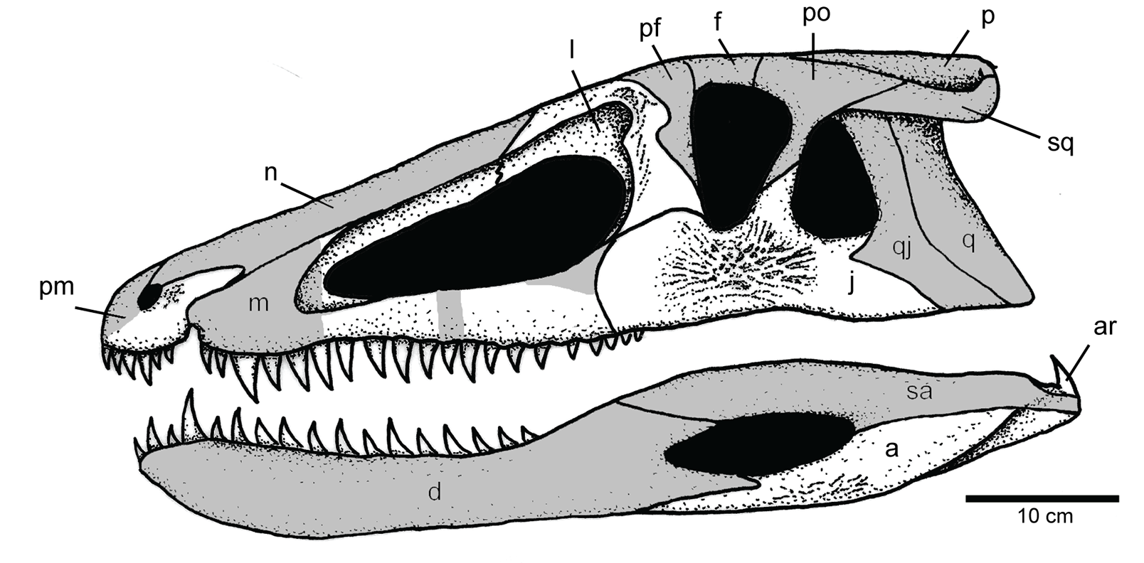 crop of file in file name